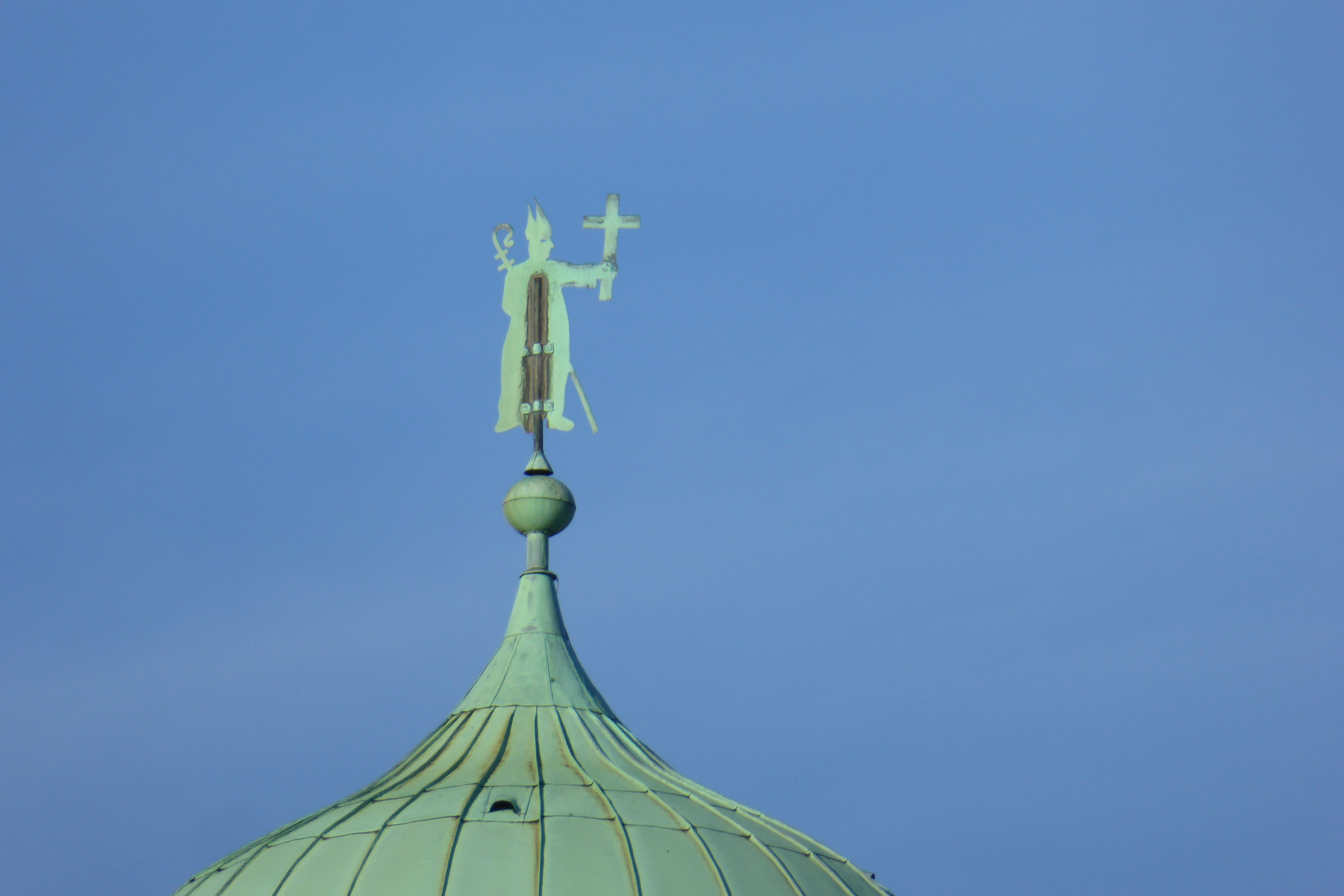 Weather vane on top of St Patrick's Tower, Dublin